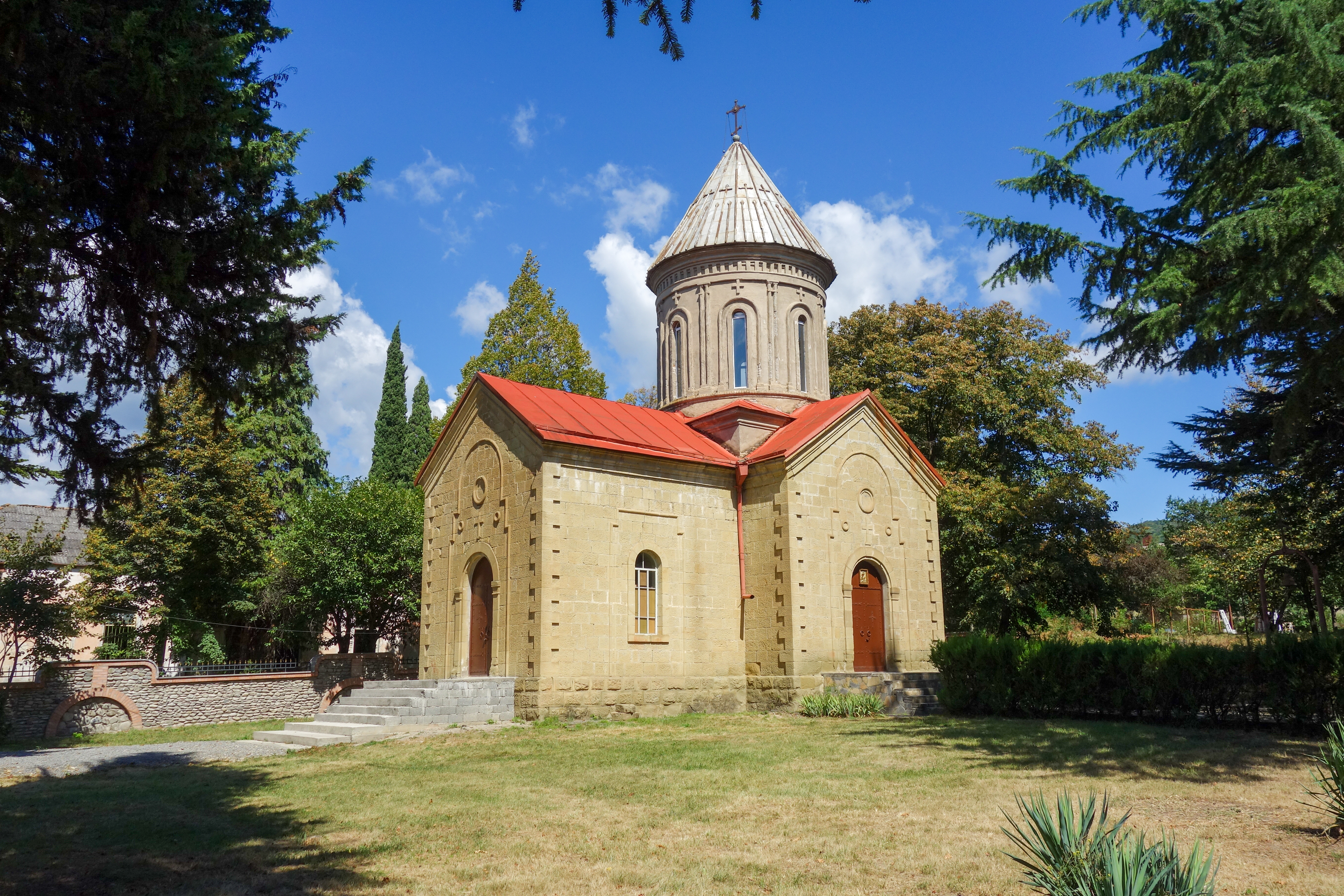 The Tsinamdzghvrishvili Church (XIX c.), Tsinamdzghvriantkari, Mtskheta-Mtianeti, Georgia